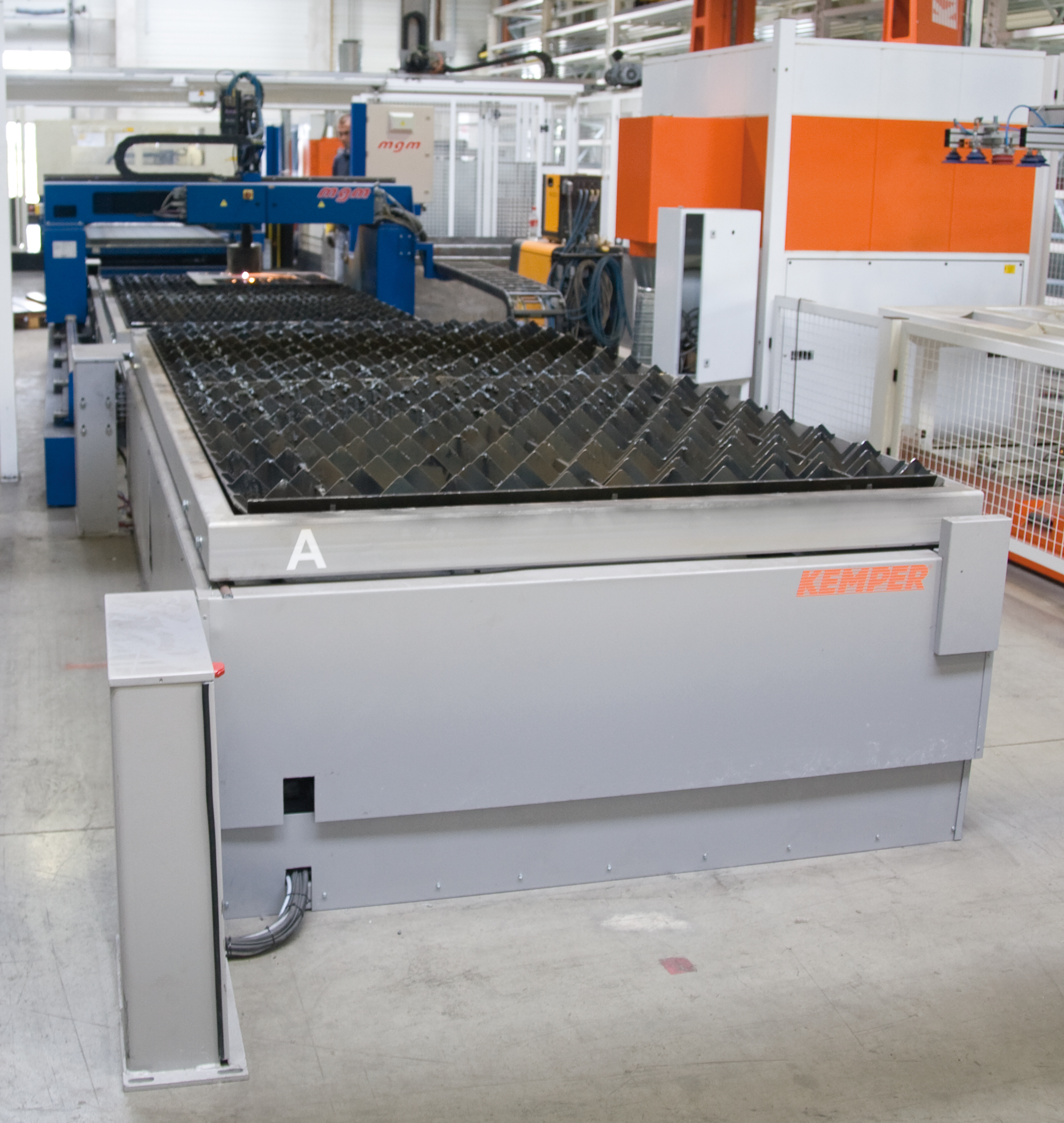 Extraction table with two shuttle frames and cutting supports